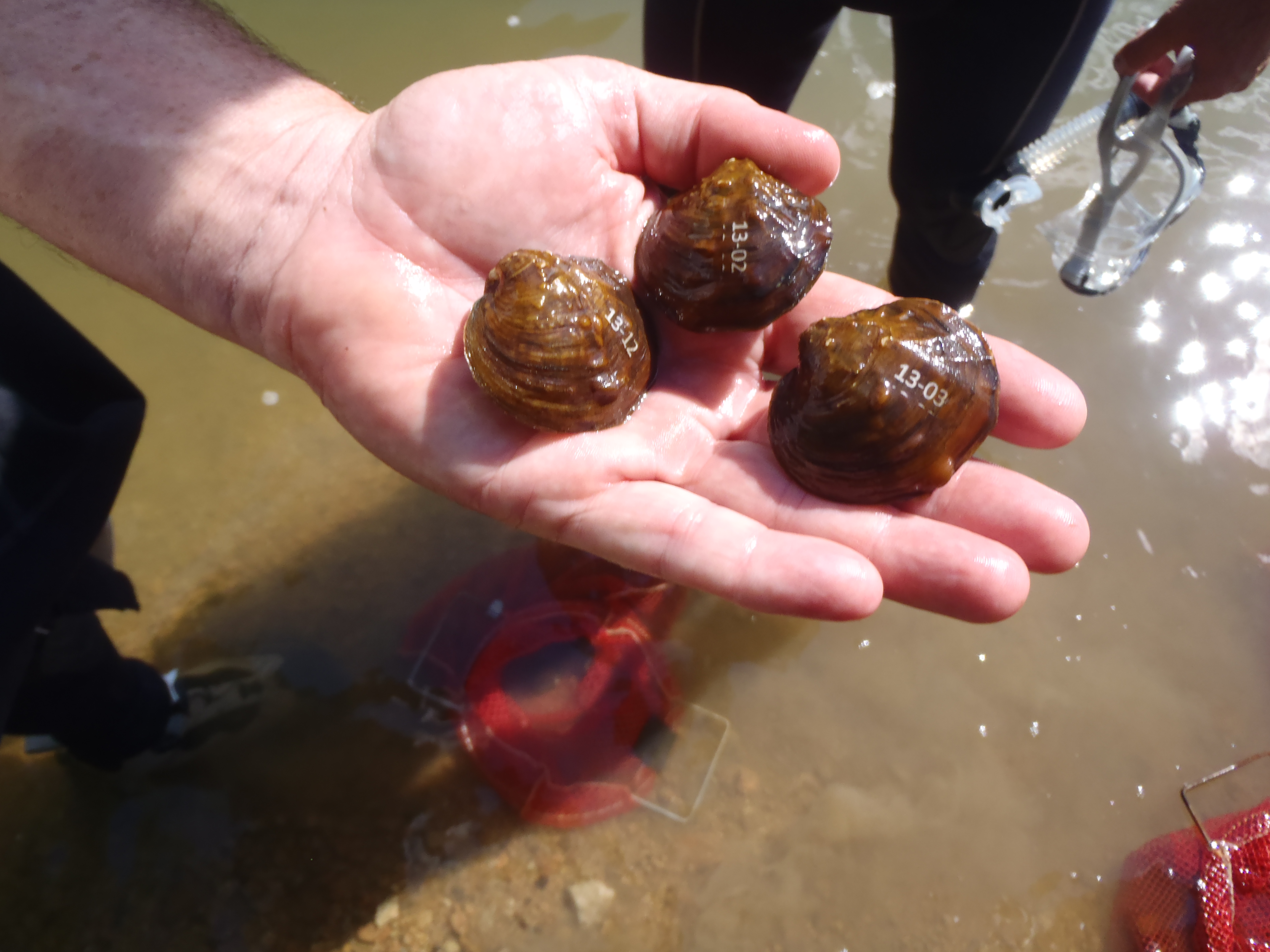 USFWS biologist Chris Davidson holds three winged mapleleaf mussels, which are tagged with identification numbers for monitoring purposes. Photo credit: Sarah Sorenson - USFWS